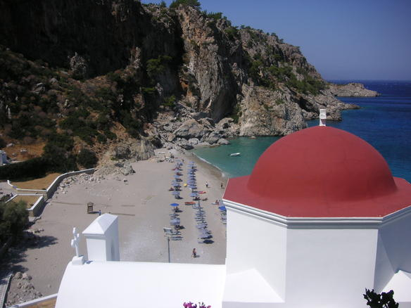 Kárpathos. Apella Beach, Kárpathos.